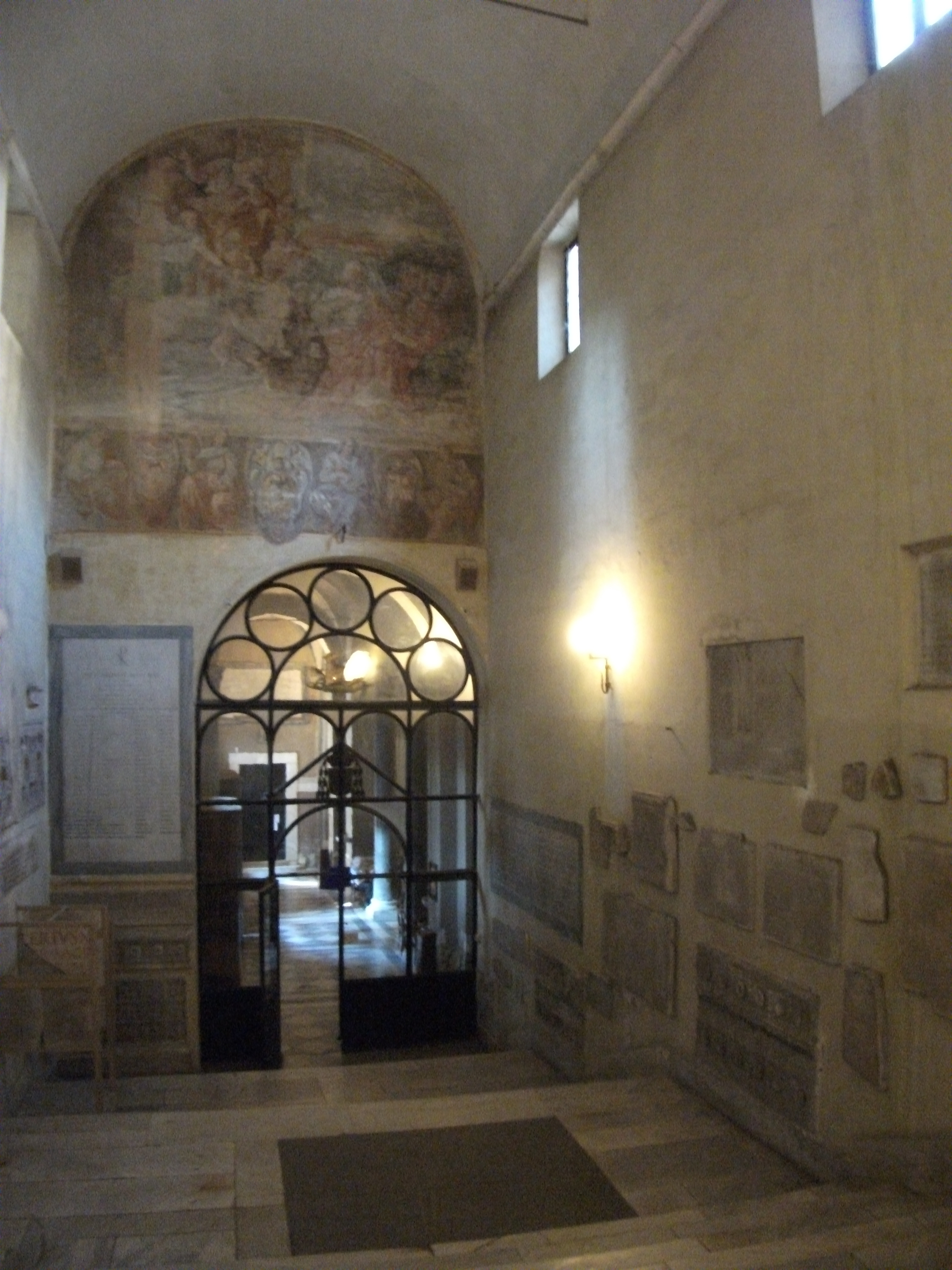 Sant'Agnese fuori le mura (Rome) - Inside